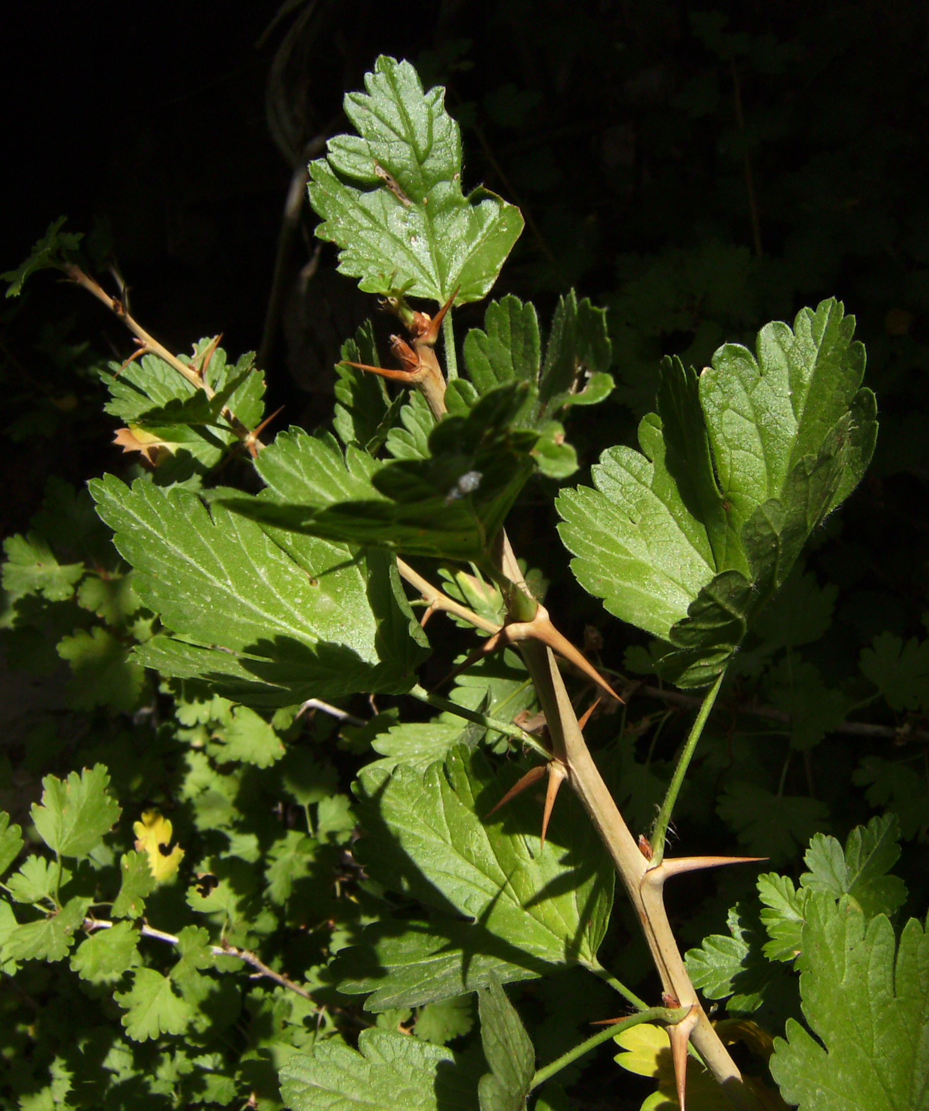 Ribes uva-crispa, leaves and thorns,cultivated plant, Castelltallat, Catalonia